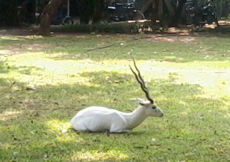 this shows the picture of a rare species of white blackbug deer